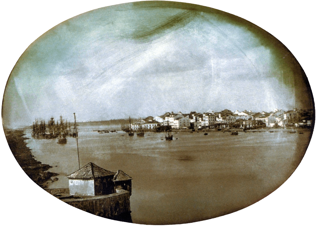 Daguerreotype of Recife, capital of Pernambuco, Brazil, 1851.